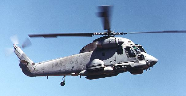 Image of SH-2G Super Seasprite on aircraft carrier